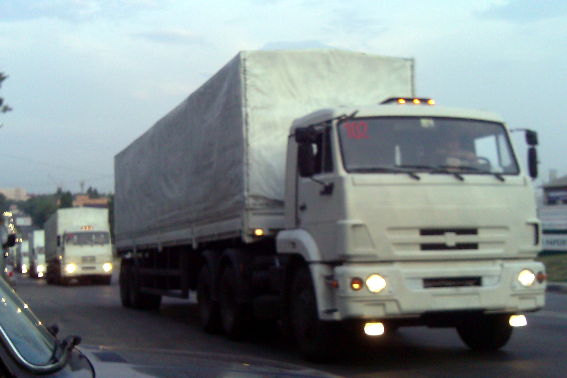 First humanitarian convoy of the Russian Federation to Donbass in Voronezh